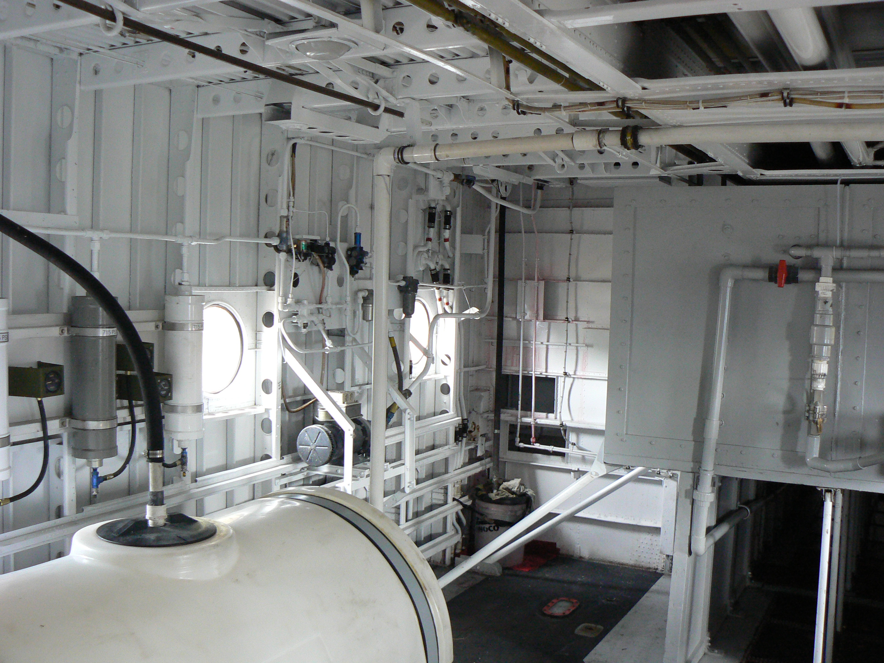 Tanks for adding fire retardant inside the Philippine Mars water bomber.